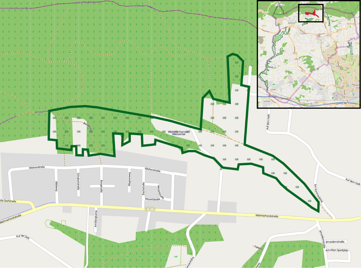 Rödinghausen - Nature reserve Wehmerhorster Wiesental - overview map Number and borders of nature reserves are subject to frequent change. In order to facilitate reproduction of this map from openstreetmap, the following data is stored here: export boundaries: north: 52.265; west: 8.495; east: 8.517; south: 52.255; mapnik svg, scale 1:7.000 nature reserve boundary stroke weight 10.0; nature reserve stroke color: R 5, G 102, B 36; municipality border stroke weight: as found